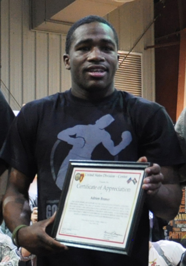 Former ten-time professional boxing world champion Oscar de la Hoya and his 'Golden Boy Boxing' team pose for a photo with Command Sgt. Maj. Ray A. Devens, 25th Inf. Div. and U.S. Division - Center command sergeant major (far left), and Maj. Gen. Bernard S. Champoux, commanding general, 25ID and USD-C (far right) during a visit to Camp Liberty, Iraq, March 12. During the visit de la Hoya and his team took the time to greet, thank and sign autographs for hundreds of Service members and military employees.